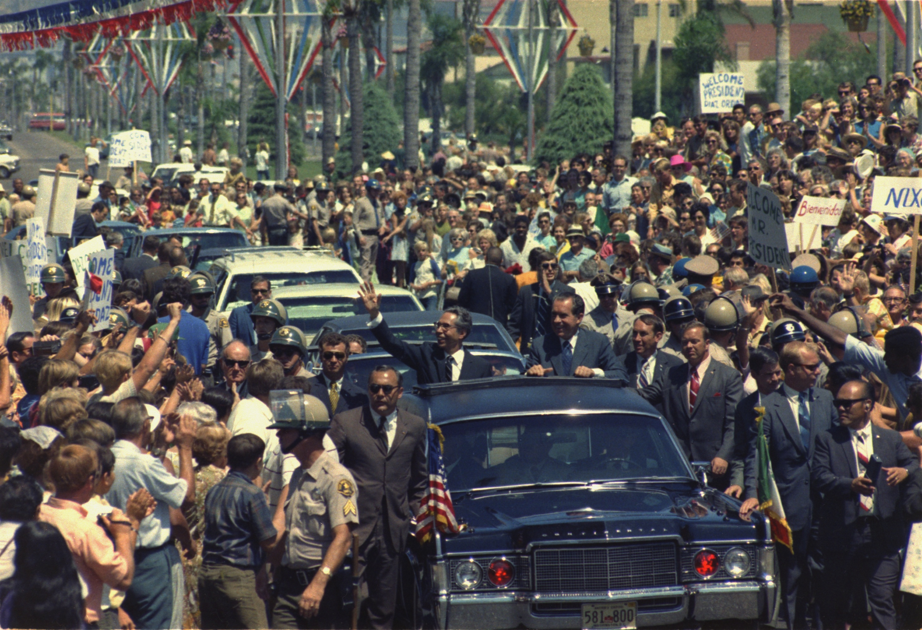 Mexican president Gustavo Díaz Ordaz (left) and U.S. President Richard Nixon (right) riding a presidential motorcade in San Diego, California, USA.